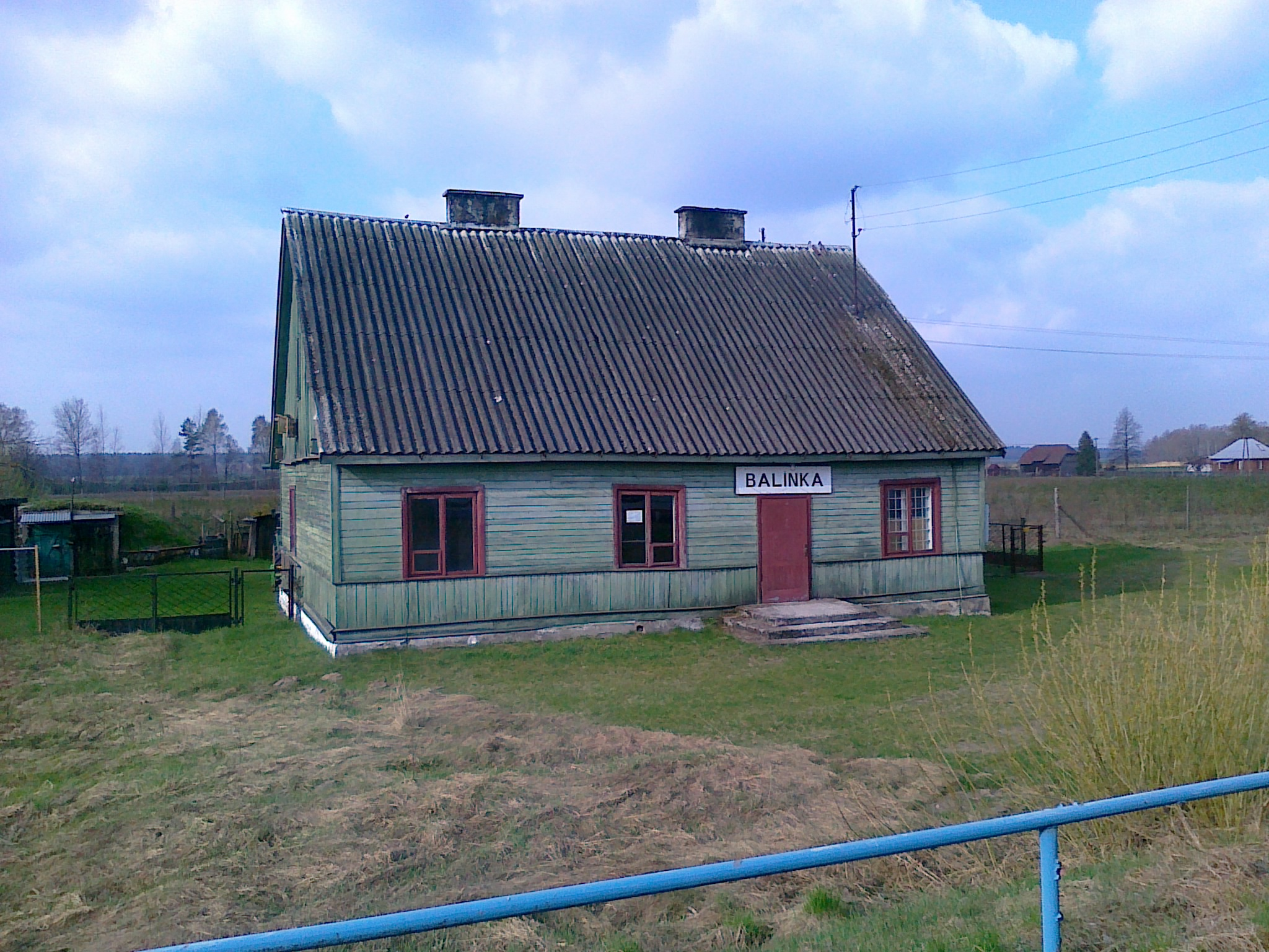 train stop in Balinka, POLAND